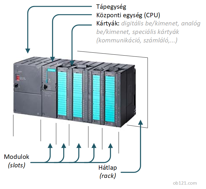 Schema